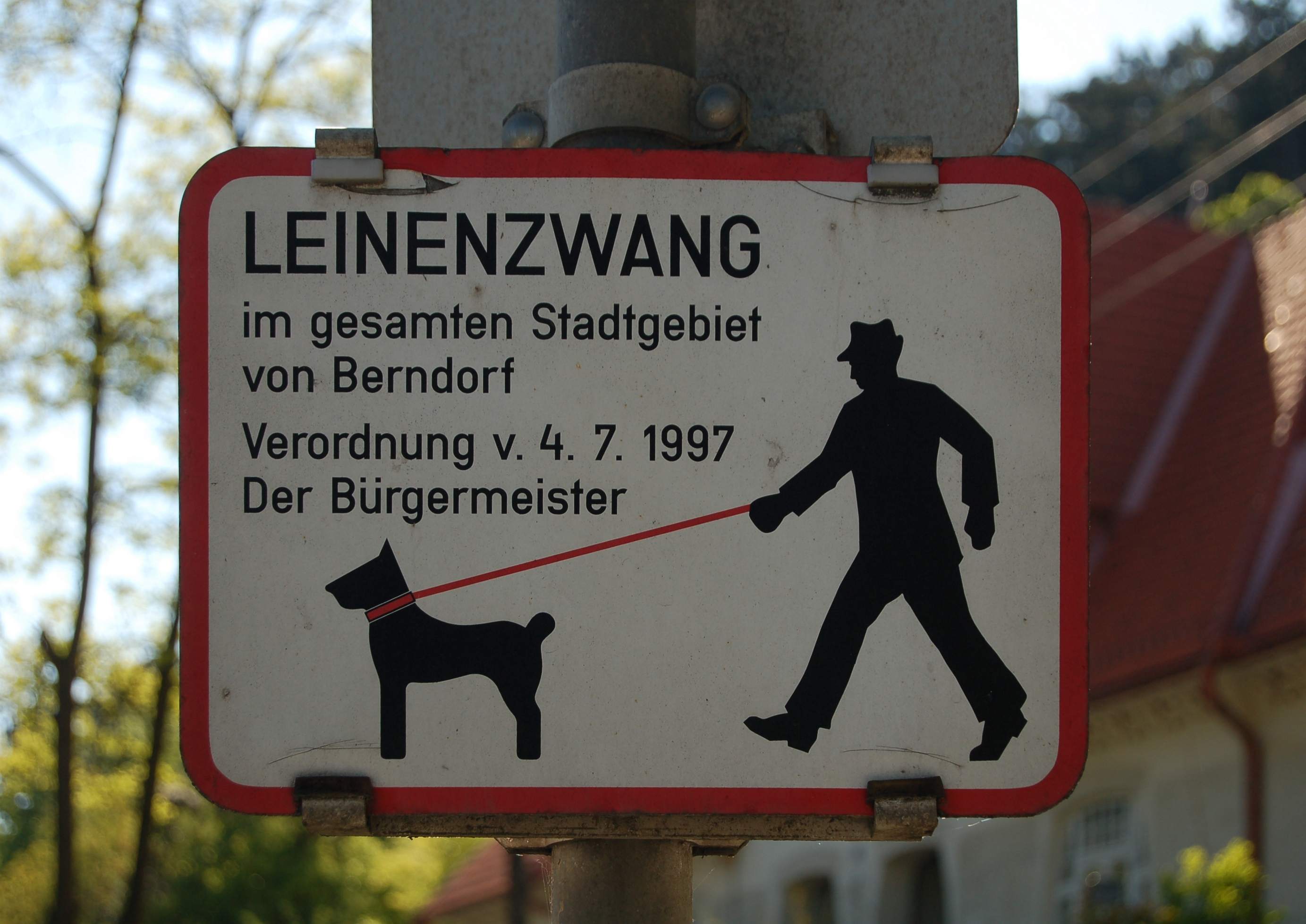 Keep dogs on leash sign at the entrance to Berndorf, Lower Austria.